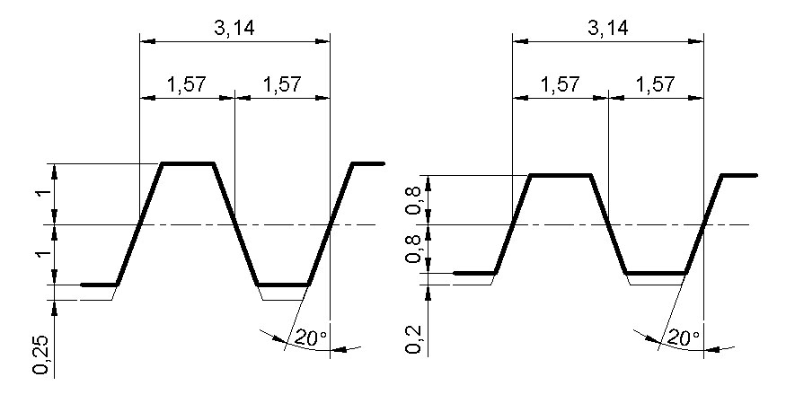 Dimensions of ISO standard racks